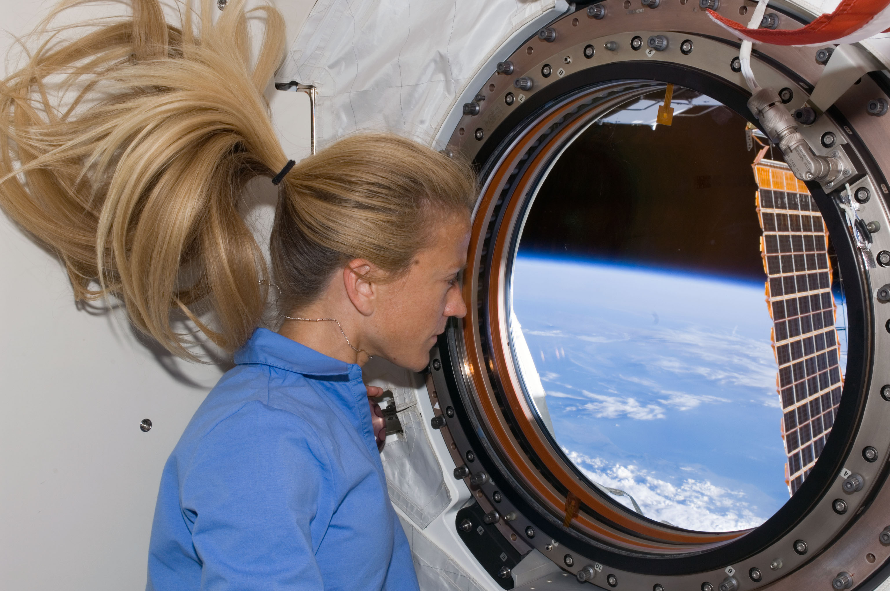 Astronaut Karen Nyberg, STS-124 mission specialist, looks through a window in the newly installed Kibo laboratory of the International Space Station while Space Shuttle Discovery is docked with the station.